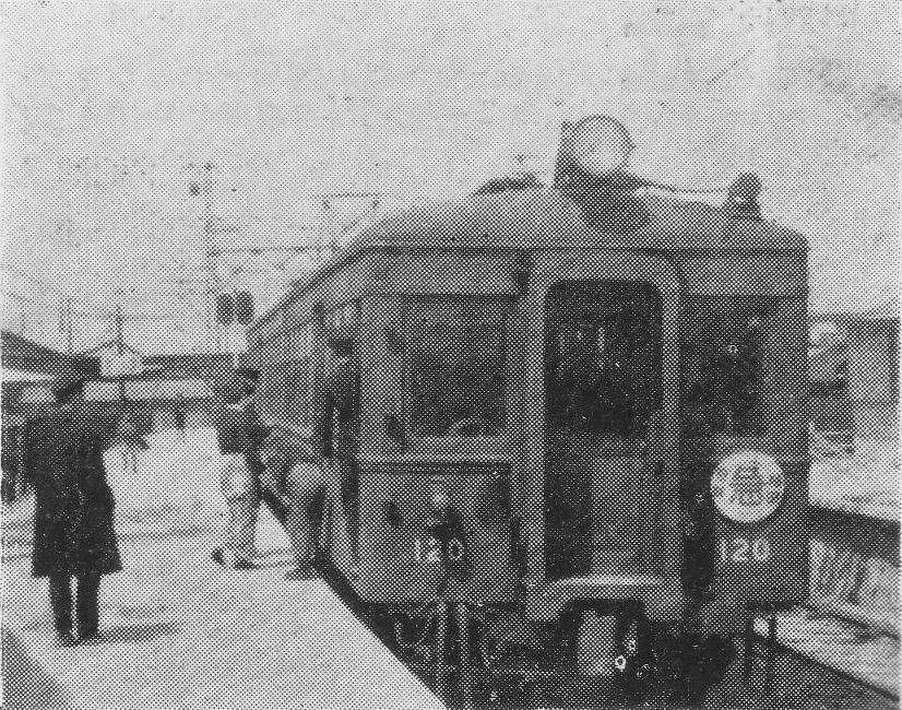 Hankyu 120.